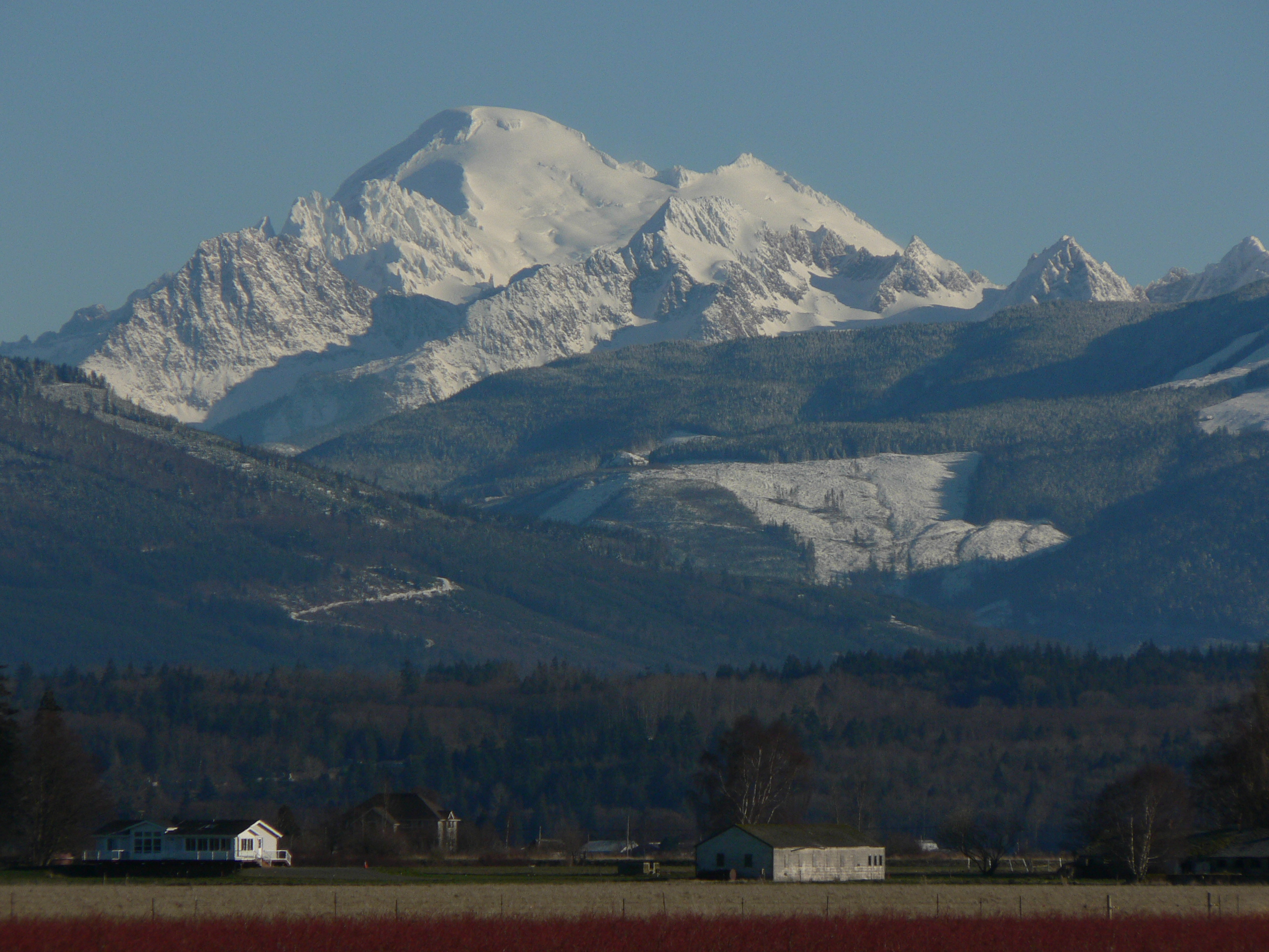 Mount Baker (10,781 feet, 3286 meters); Samish River Delta (foreground)